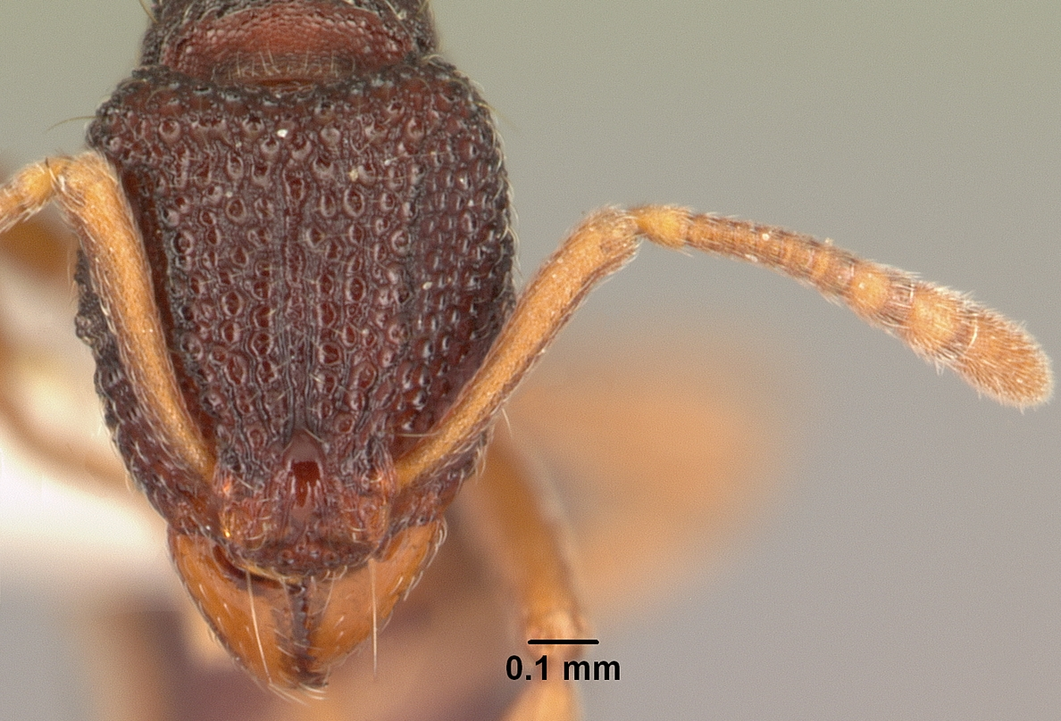 Head view of ant Indomyrma dasypyx specimen casent0101964.